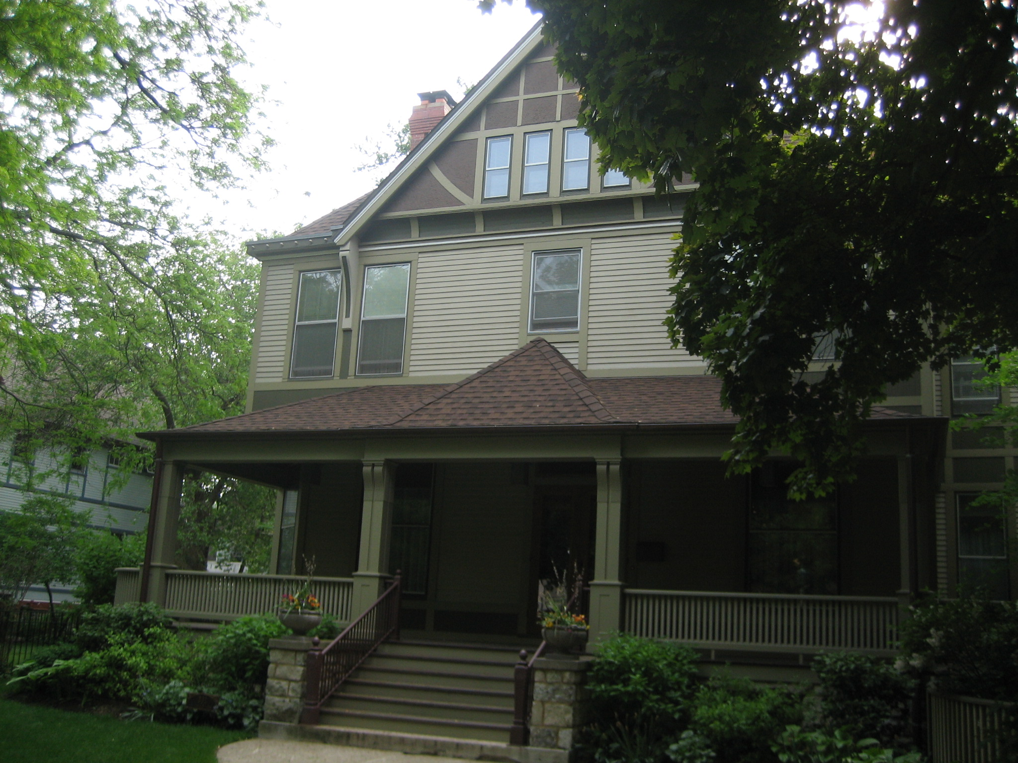 Charles E. Roberts House, Frank Lloyd Wright designed interior remodel 1896. Original architects: Burnham & Root, 1879. Oak Park, Illinois. Listed as a contributing property to the Frank Lloyd Wright-Prairie School of Architecture Historic District. Listed in the U.S. National Register of Historic Places. Designated a local Oak Park Landmark.